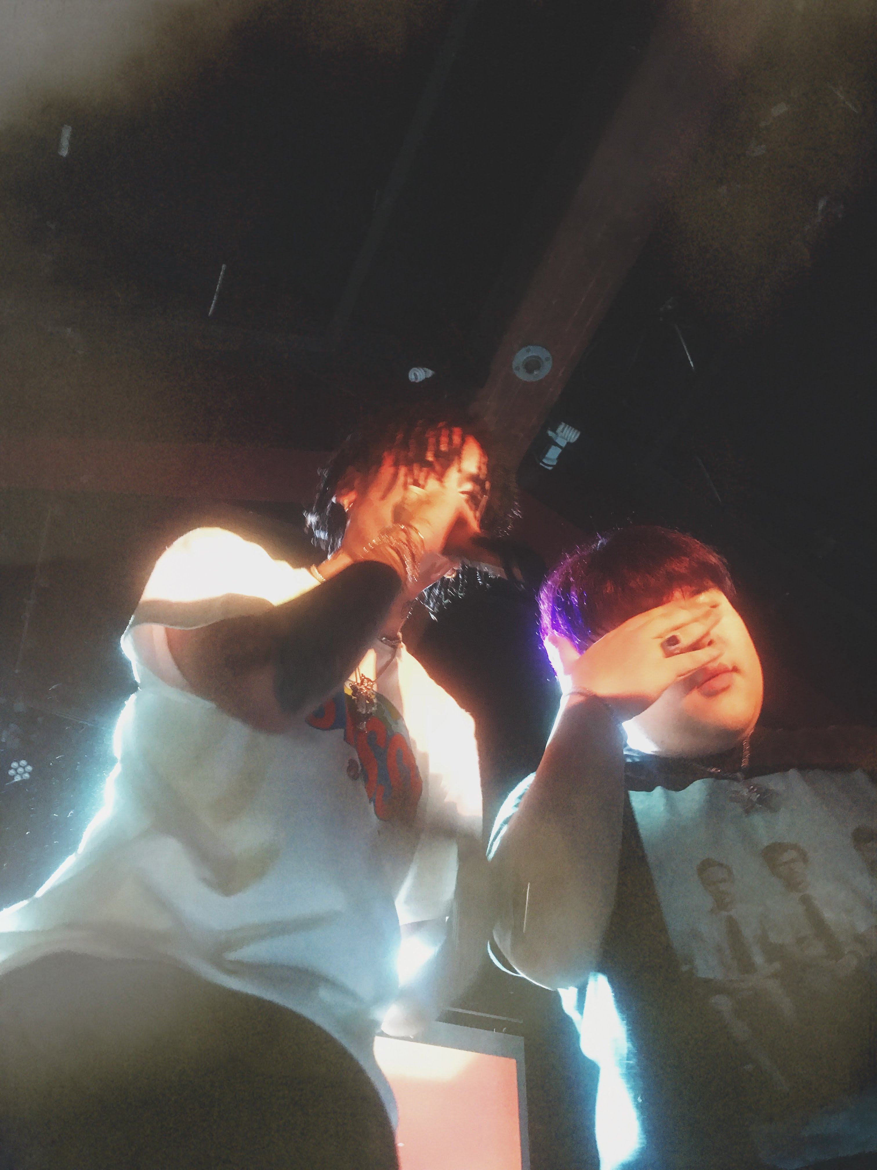 Photograph by Josh Jaffe (@josh_jaffe)